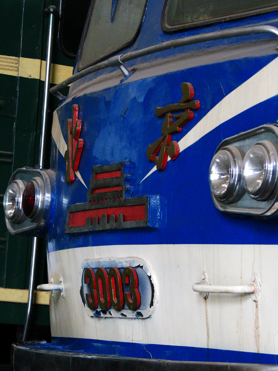 The Tiananmen Square logo in front of a China Railways BJ diesel locomotive